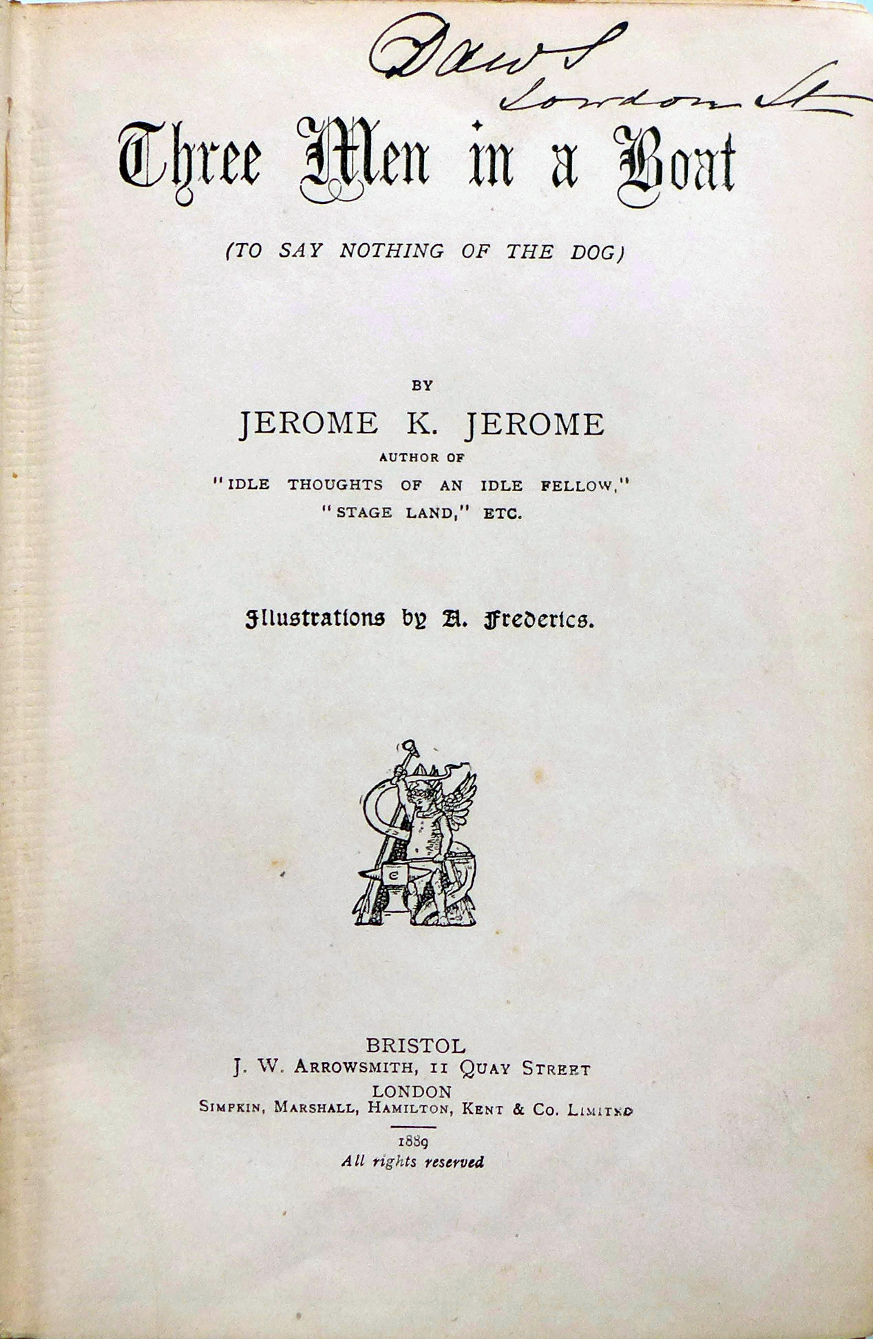 Titlepage of the first edition of Jerome K. Jerome (1889) Three Men in a Boat: (To Say Nothing of the Dog), Bristol: J.W. Arrowsmith OCLC: 213830865.